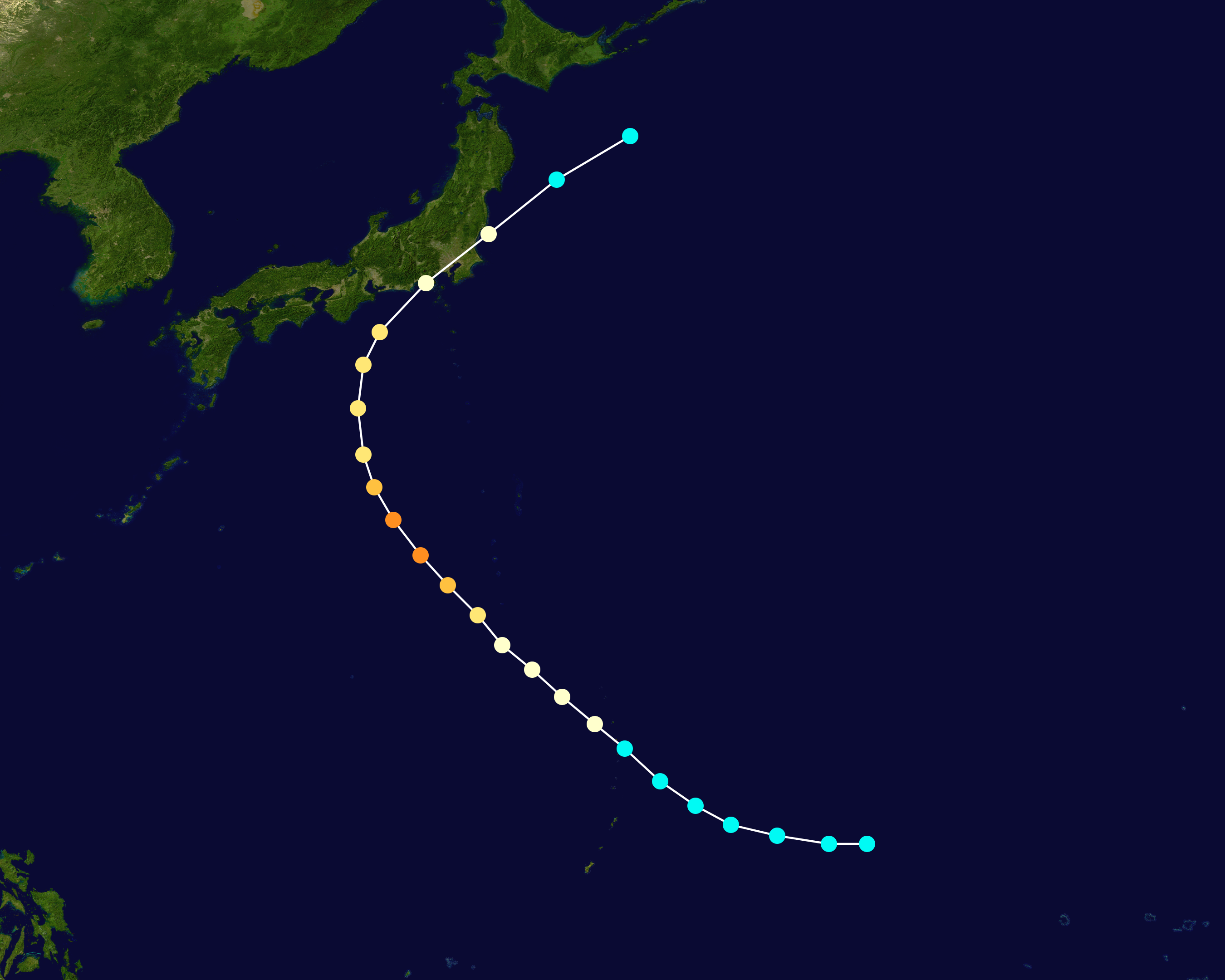 Track map of Typhoon Ione of the 1948 Pacific typhoon season. The points show the location of the storm at 6-hour intervals. The colour represents the storm's maximum sustained wind speeds as classified in the Saffir-Simpson Hurricane Scale (see below), and the shape of the data points represent the nature of the storm, according to the legend below. Saffir–Simpson hurricane wind scale Tropical depression≤38 mph≤62 km/h Category 3111–129 mph178–208 km/h Tropical storm39–73 mph63–118 km/h Category 4130–156 mph209–251 km/h Category 174–95 mph119–153 km/h Category 5≥157 mph≥252 km/h Category 296–110 mph154–177 km/h Unknown Storm typeTropical cycloneSubtropical cycloneExtratropical cyclone / Remnant low / Tropical disturbance